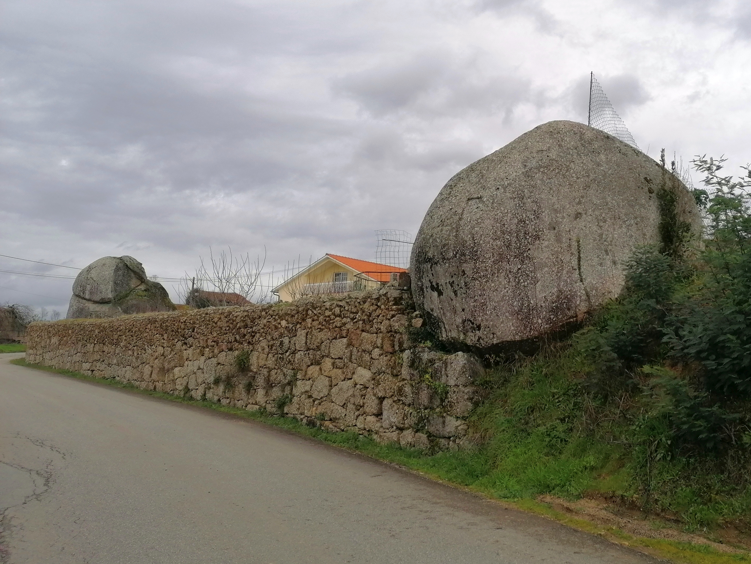 The village of Colmeosa was named after the existing boulders that have an appearance as skeps, traditional beehives (colmeia in Portuguese)